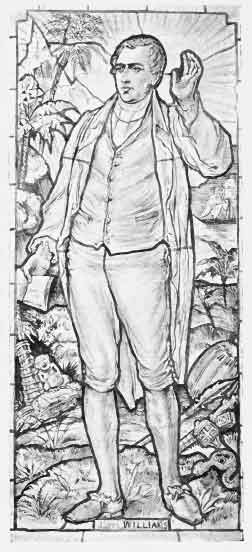 From:Fighters and martyrs for the freedom of faith; Walmsley, Luke S; London : James Clarke; 1912, design for a stained glass window Image of John Williams (missionary).